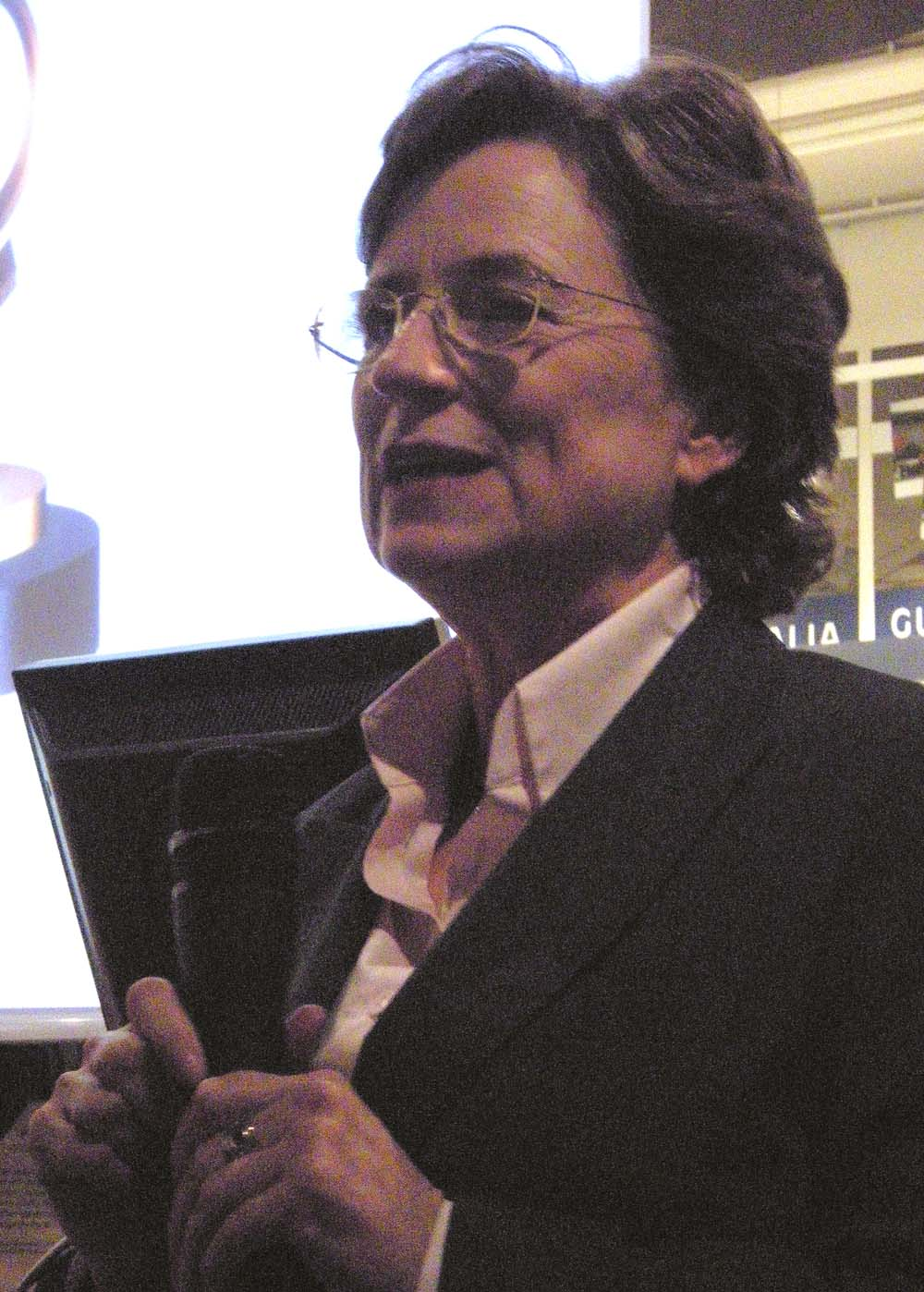 Austrian psychotherapist, writer, and executive coach Christine Bauer-Jelinek, when presenting her latest publication, an e-learning DVD. Vienna, Austria.